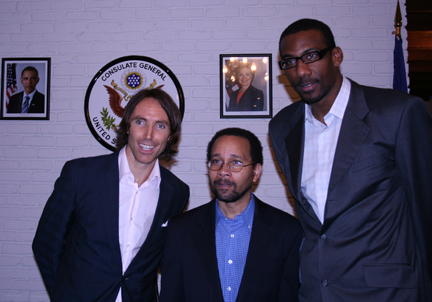 From left to right: Steve Nash, Bruce Williamson, US consul general of Monterrey, and Amare Stoudemire